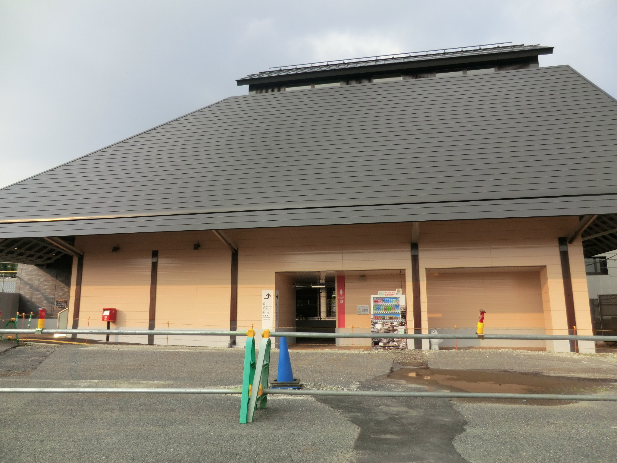 Kōnan Station (Kusatsu Line), Konan, Koka, Shiga, Japan